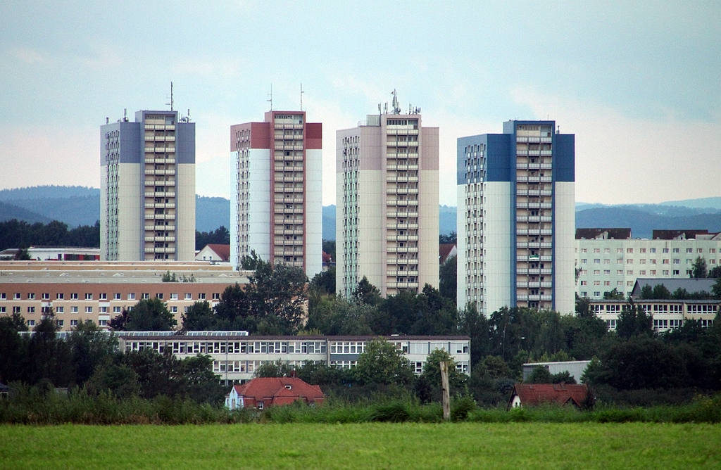 Pirna-Sonnenstein: view on the 17 floor tower blocks.